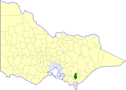 Location of the City of Morwell within Victoria.